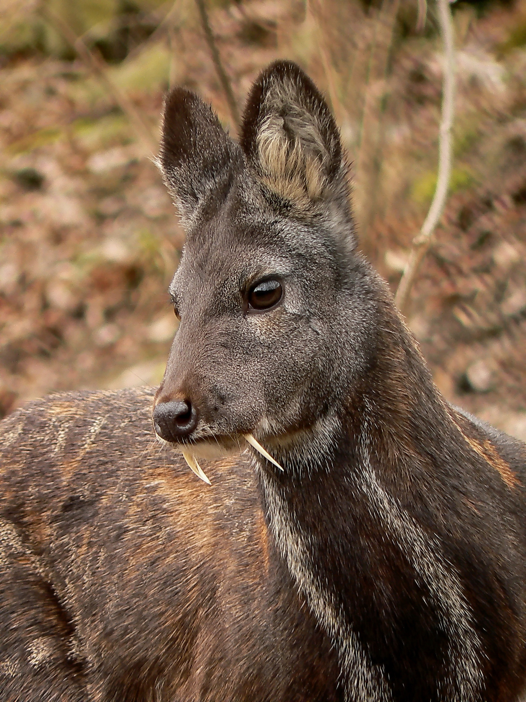 Taiga musk deer (Siberian musk deer) (Moschus moschiferus), male, Plzen zoo 12.02.2011